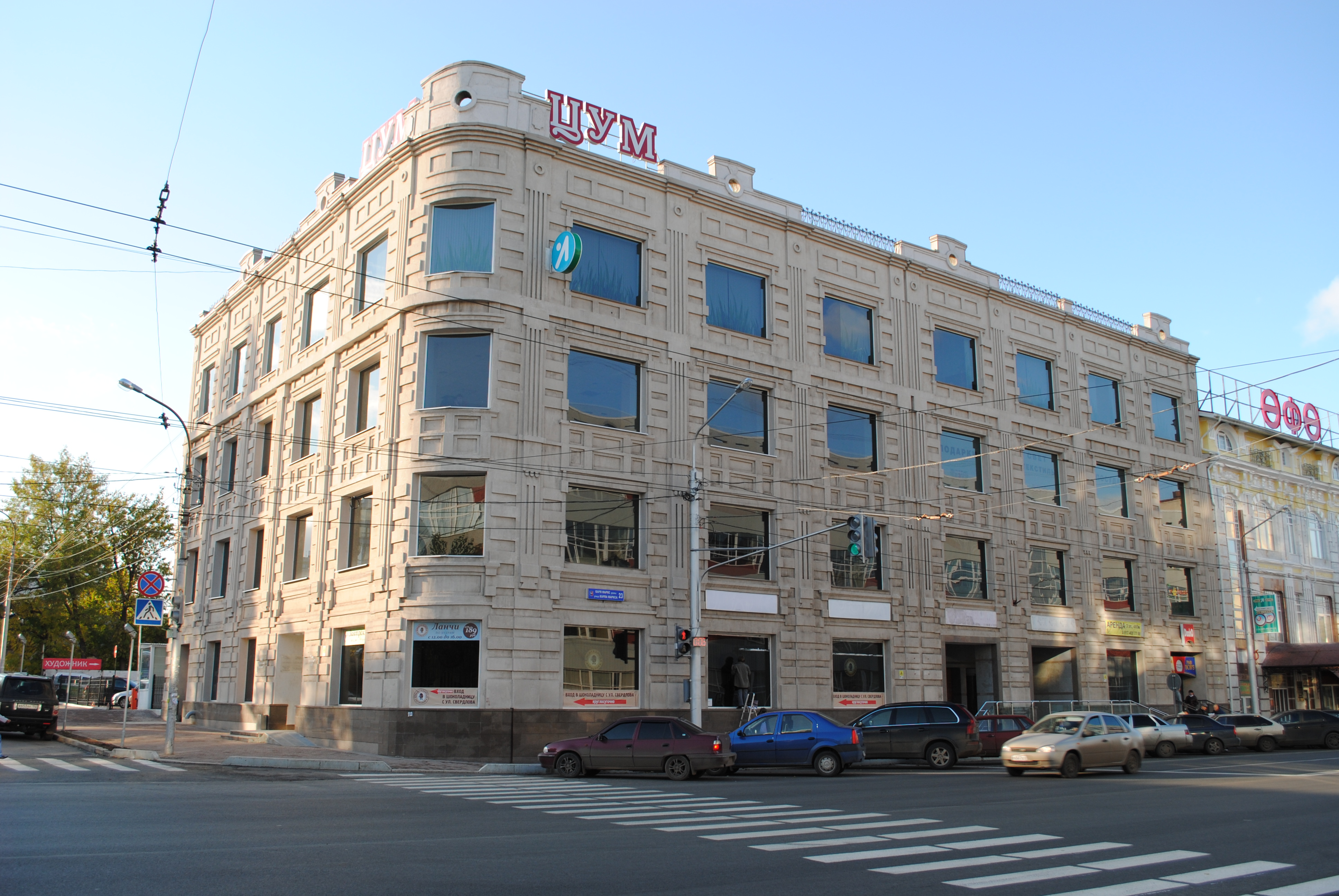 Ufa central departmentБашҡортса: Өфө үҙәк универмаг